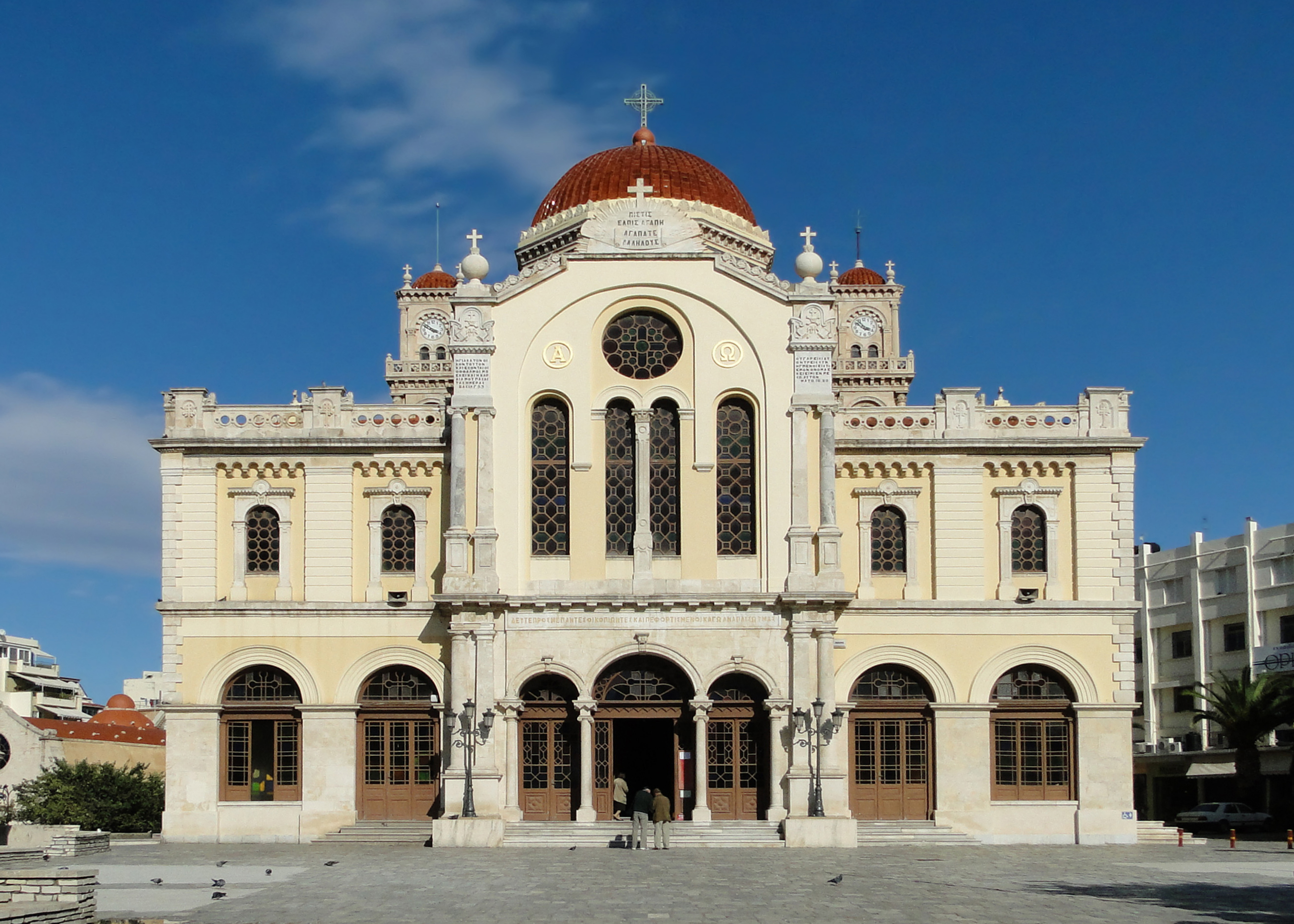 Agios Minas Cathedral, Heraklion, Crete, Greece